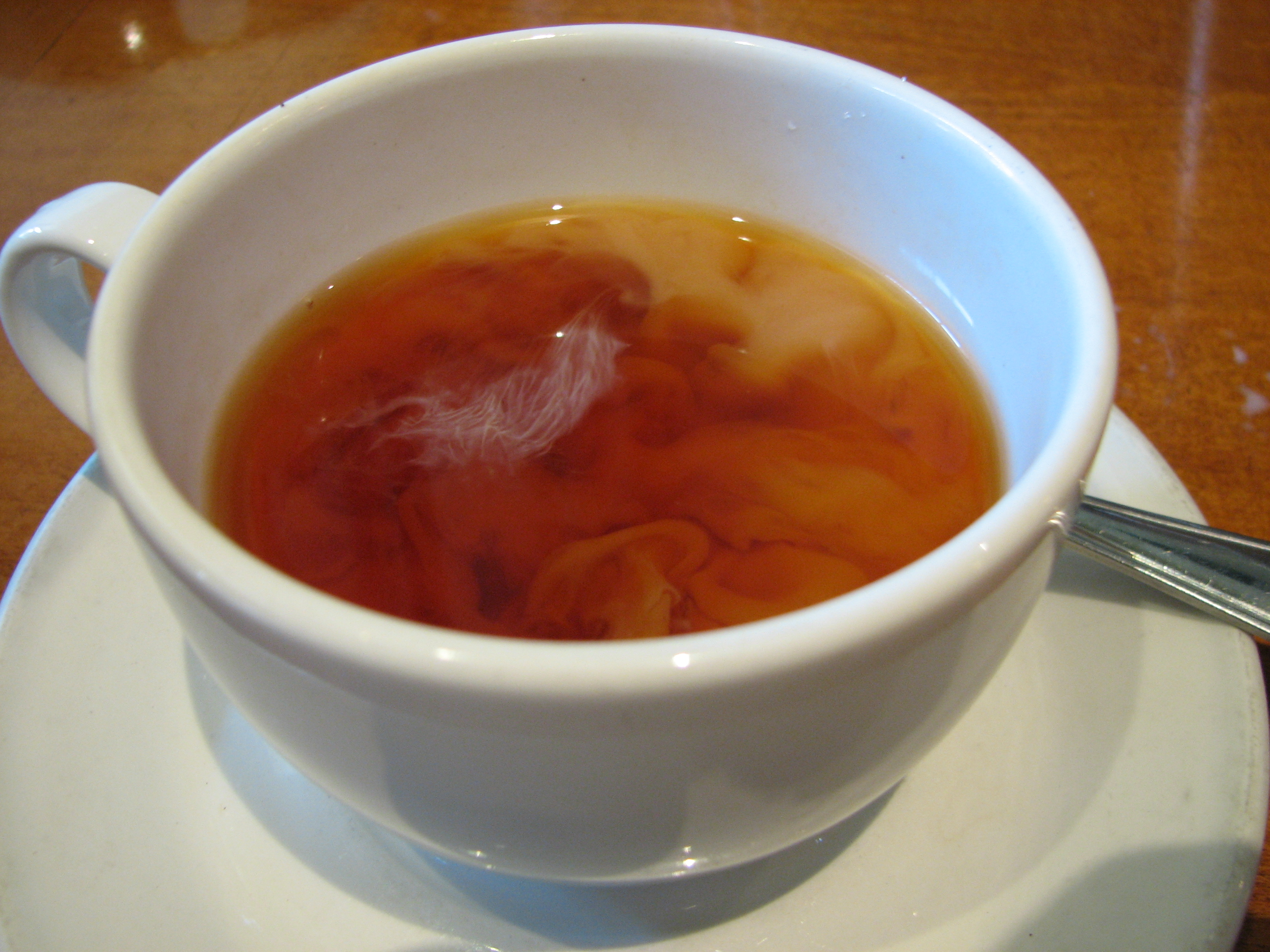 A photograph of a cup of orange pekoe tea with the milk not yet stirred in, so forming "clouds".